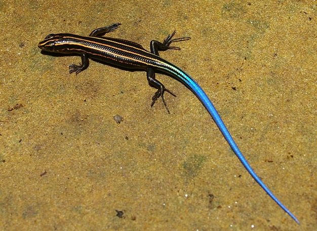 Title is a mistake(this is not Kishinouetokage (Plestiodon kishinouyei)),This is Eumeces stimpsoni, called "Ishigaki tokage" in Japan, in Iriomote island Japan.